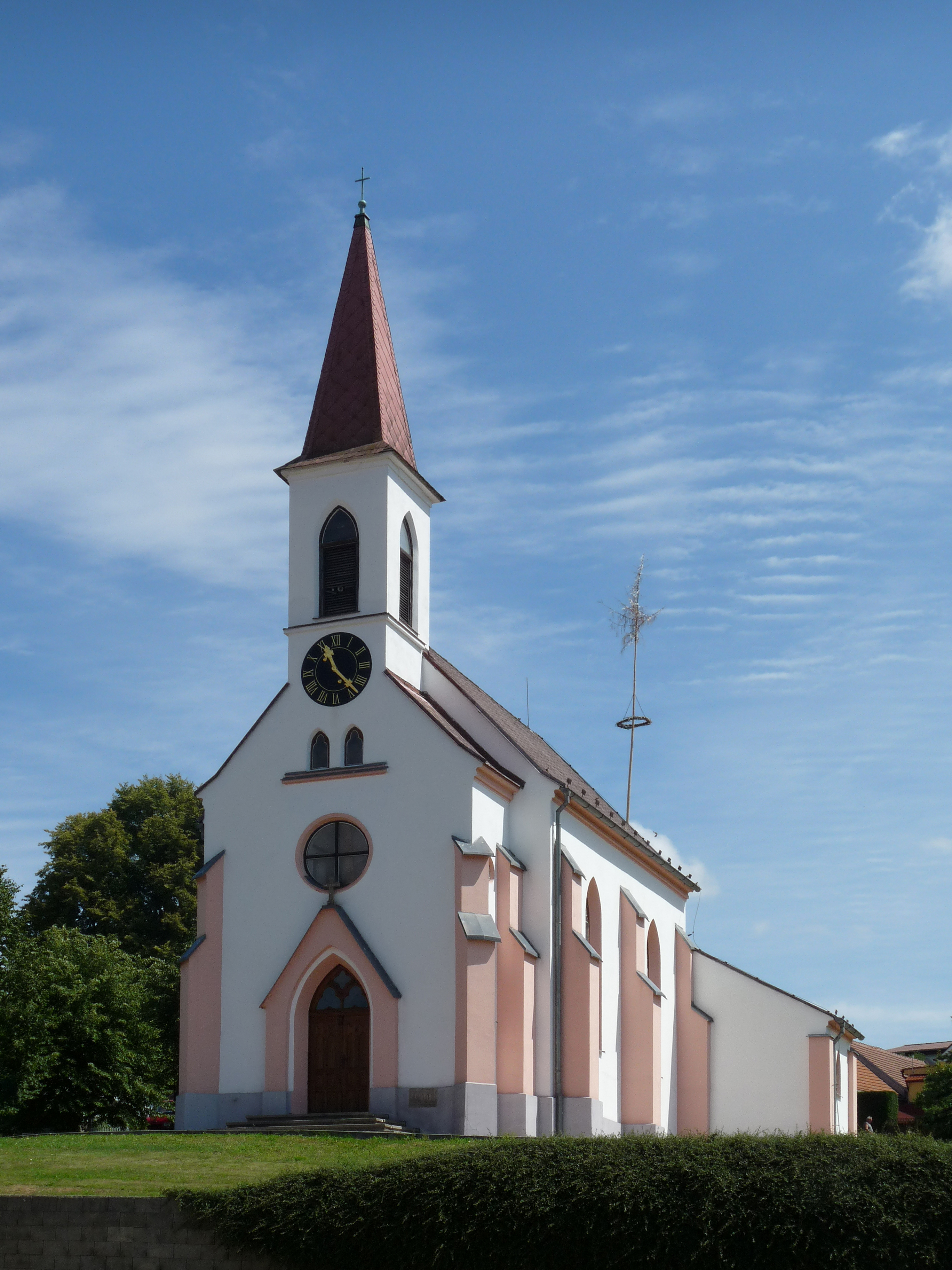 Virgin Mary Church in the village of Staré Hodějovice, part of České Budějovice, Czech Republic.